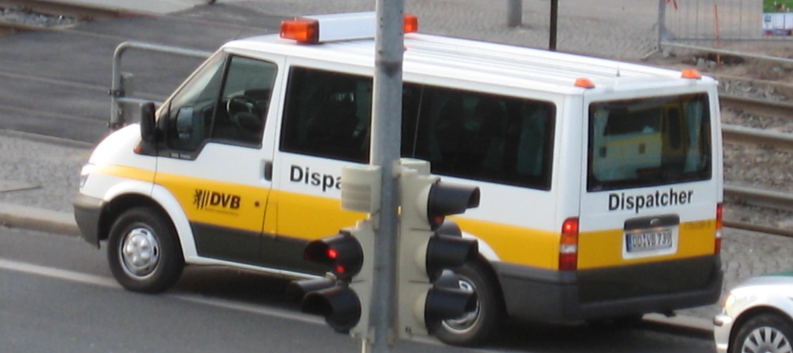 A dispatcher in a car. Photo was taken in Dresden (Saxony)